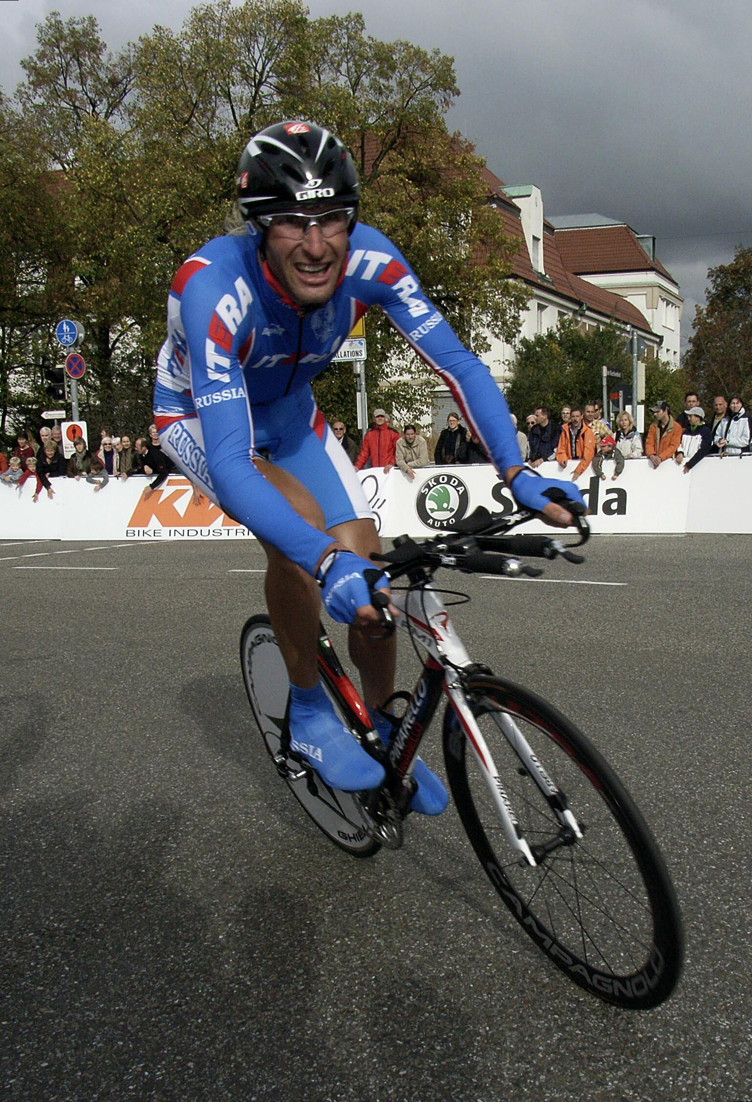 Vladimir Karpets while 2007 Time Trial World Championship in Stuttgart.